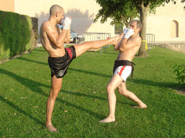 Front Kick